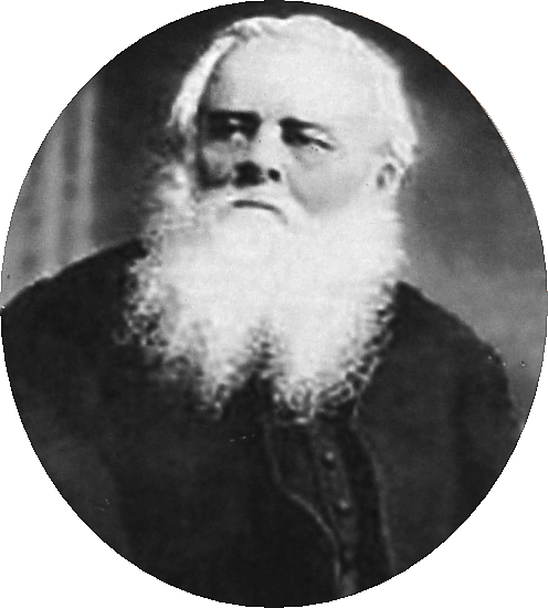 Piotr Ściegienny